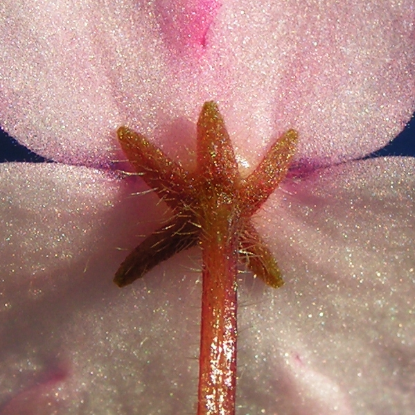 Cultivated Saintpaulia, the calyx of the flower.